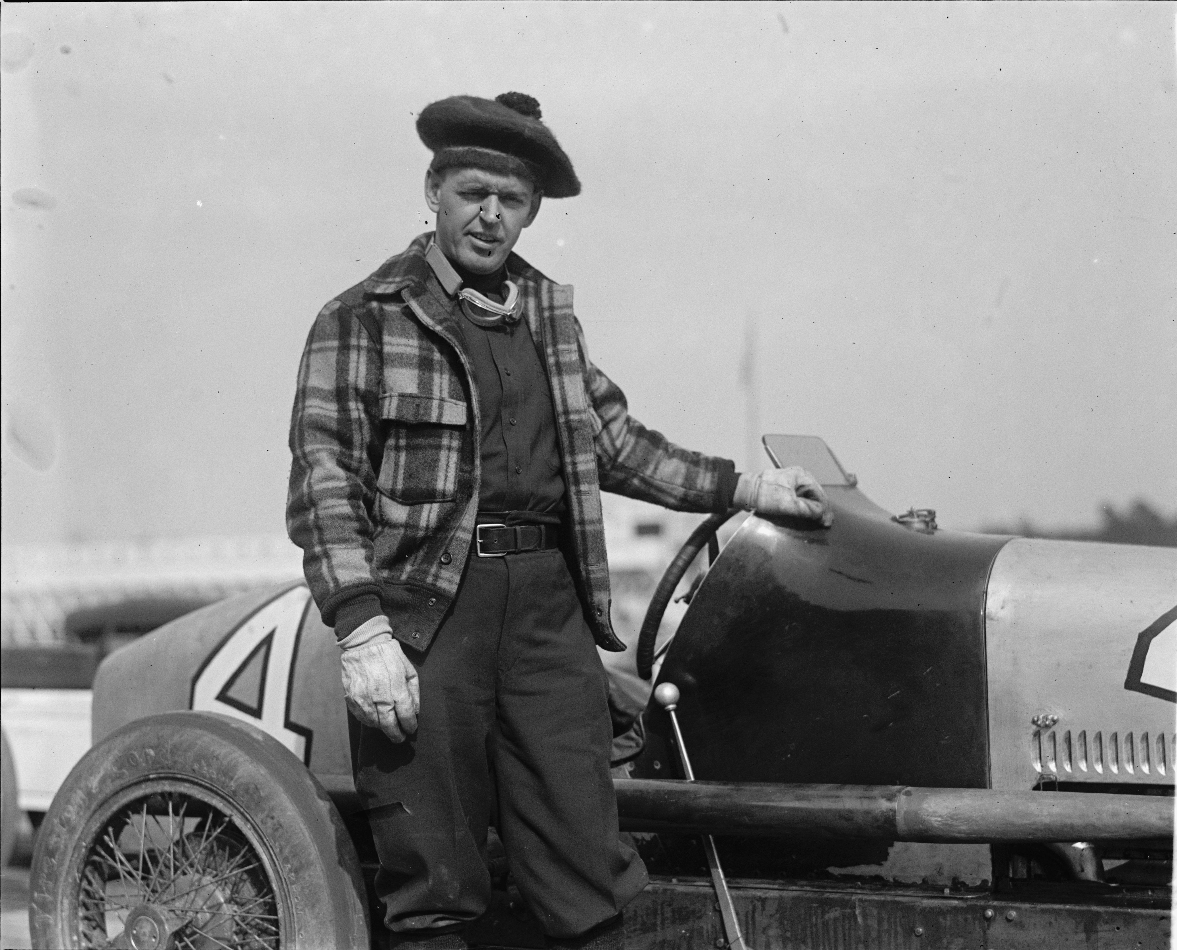 Tommy Milton (American racecar driver) in 1925